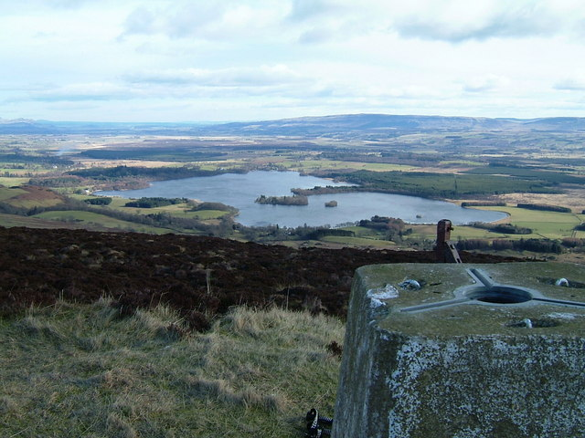 Trig point. Looking SE from this Menteith Hills trig point at 400m down to the Lake of Menteith and Inchmahome Island.